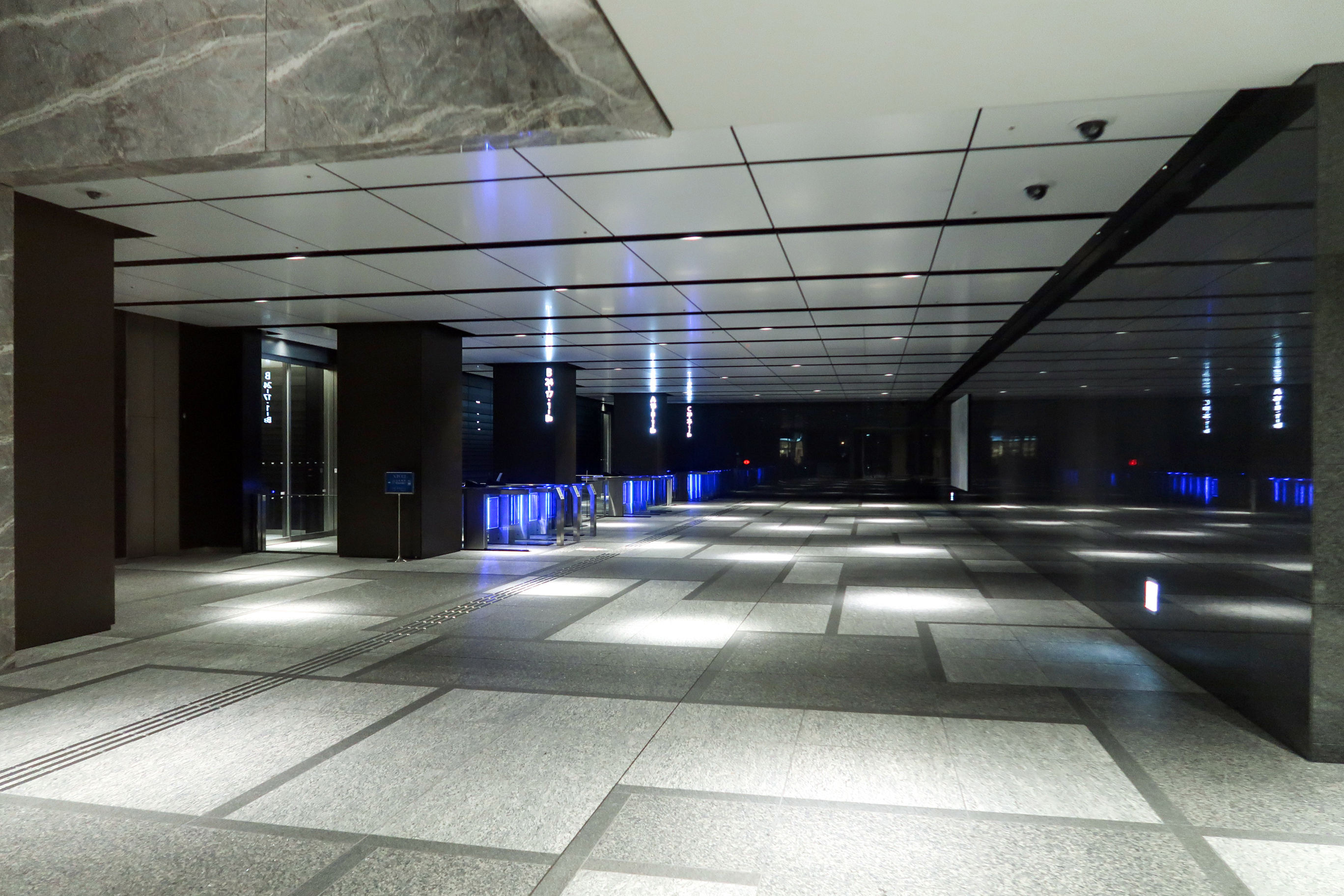 Marunouchi Nijūbashi Building Office Lobby 1